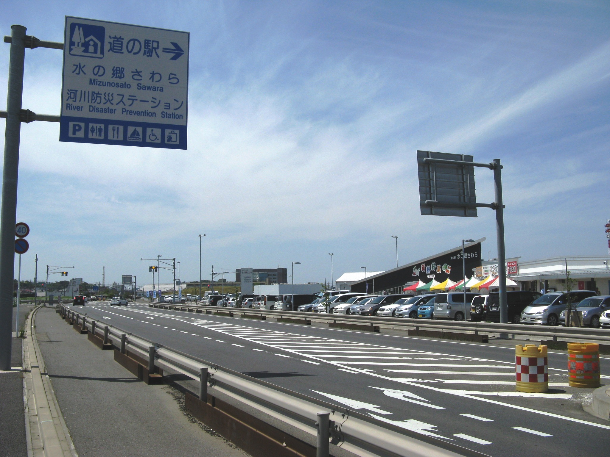 National Route 356 and Michinoeki Mizunosato Sawara